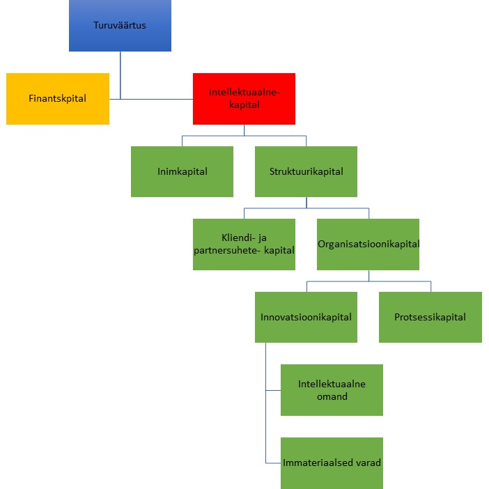 Intellectual Capital by L.Edvinsson